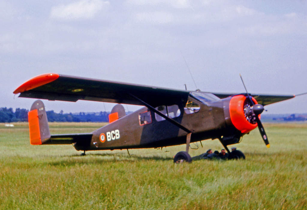 Max Holste MH.1521C Broussard No. 118 of the French Army at Toussus-le-Noble airfield in 1965